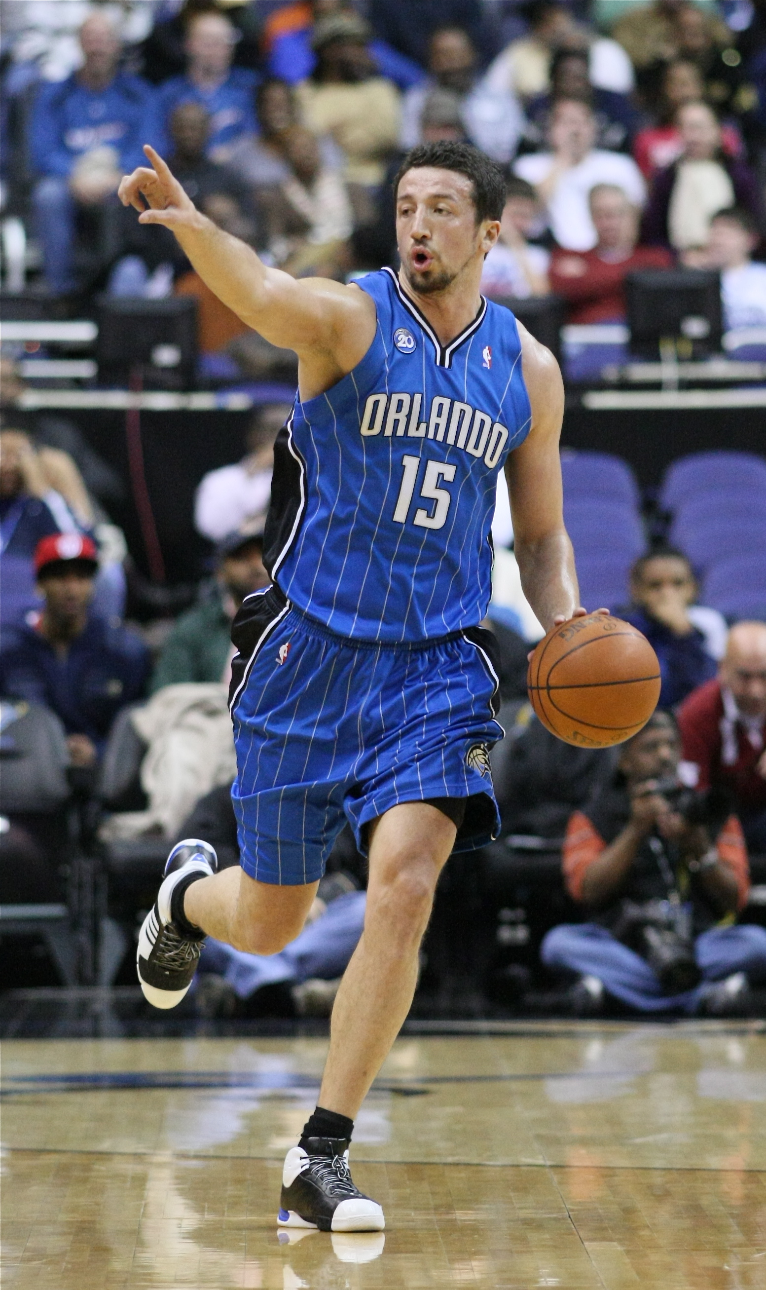 Hedo Turkoglu at the Washington Wizards v/s Orlando Magic game on 11/27/08